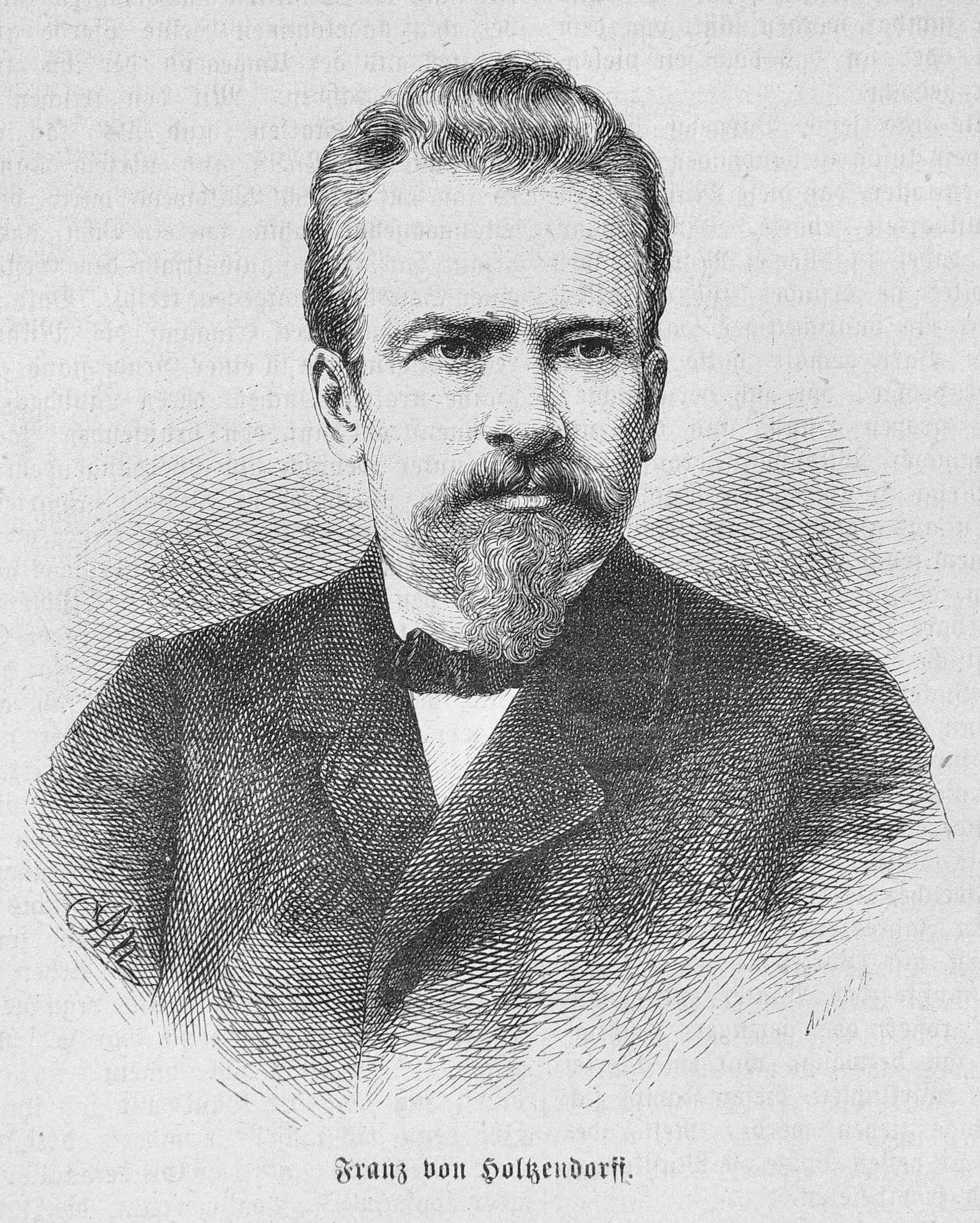 caption: "Franz von Holtzendorff."